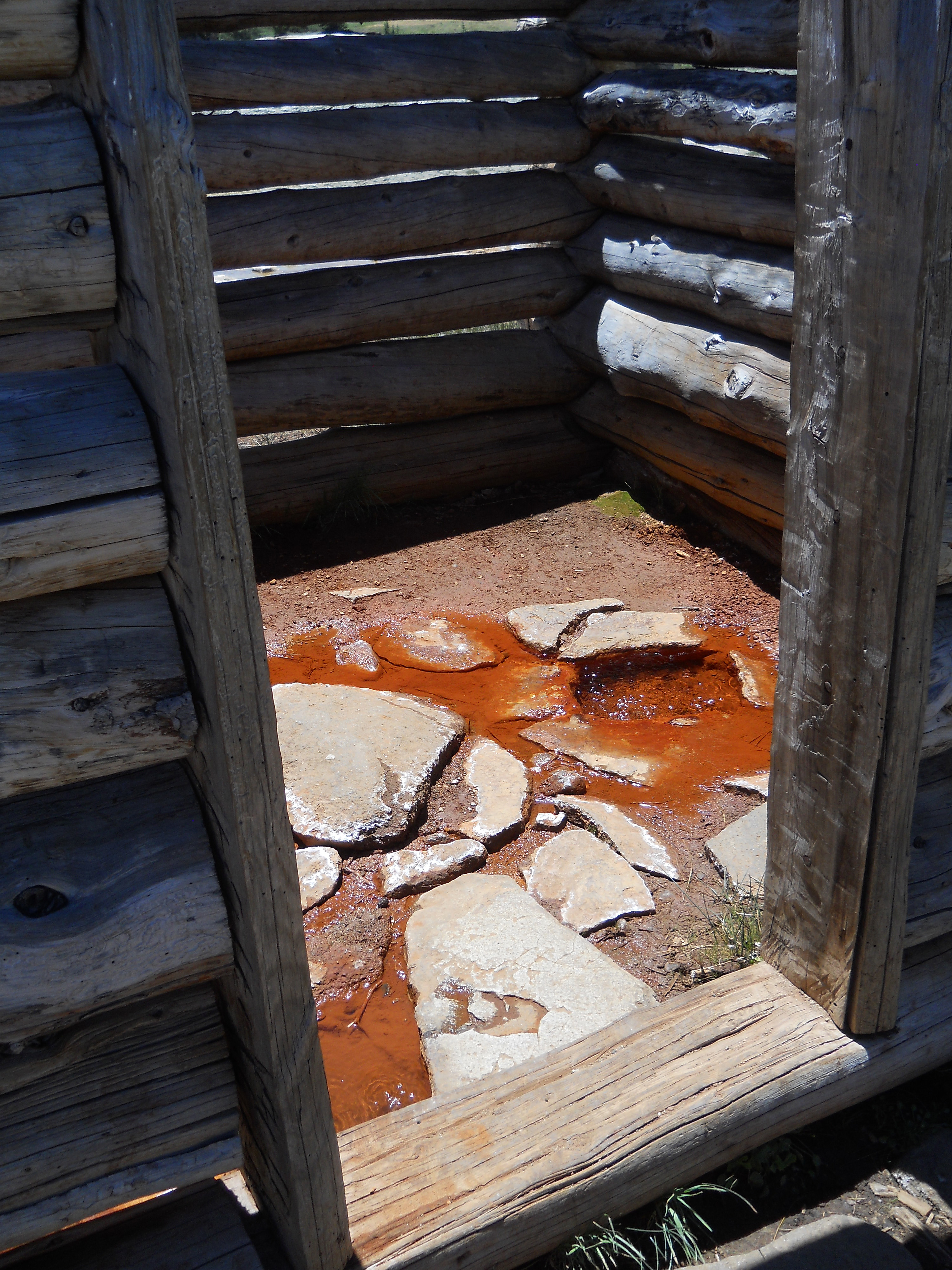 Soda Springs Cabin------spring inside the cabin